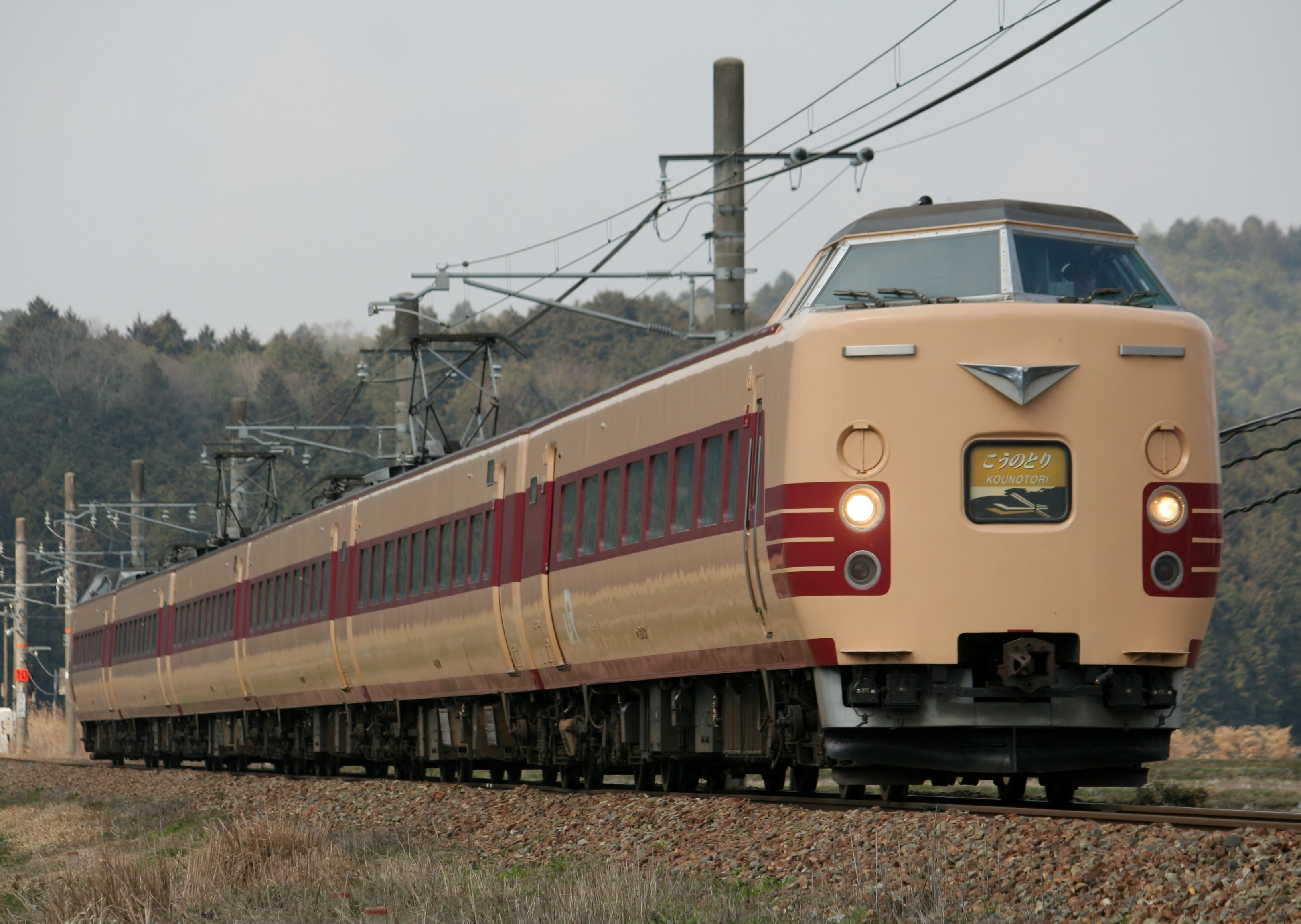 JR West 381 series EMU on a "Konotori" limited express service on the Fukuchiyama Line between Kuroi and Ichijima stations